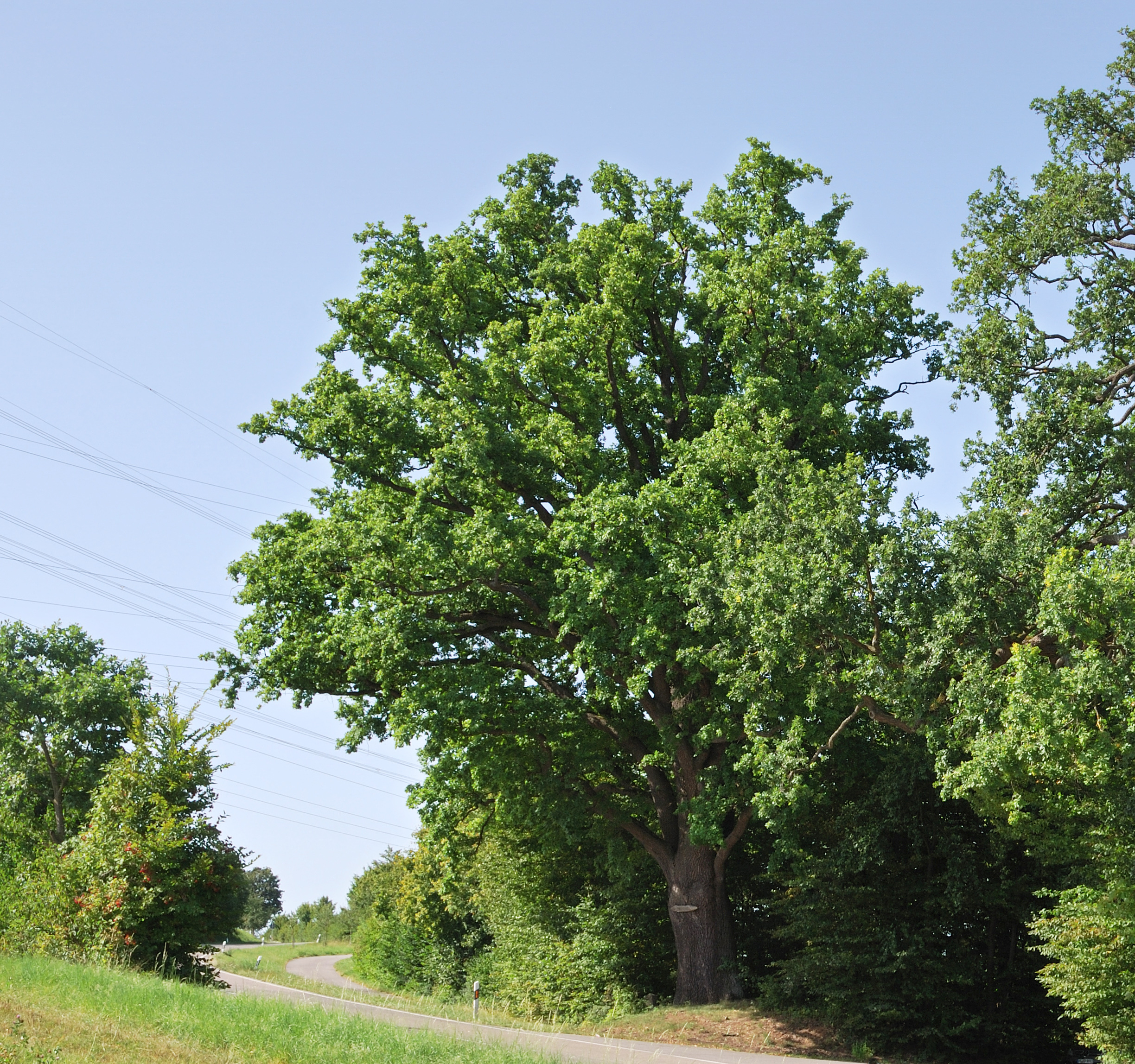 The oak tree Betteleiche (Beggars Oak) in Schöckingen in the German Federal State Baden-Württemberg is a Natural monument.